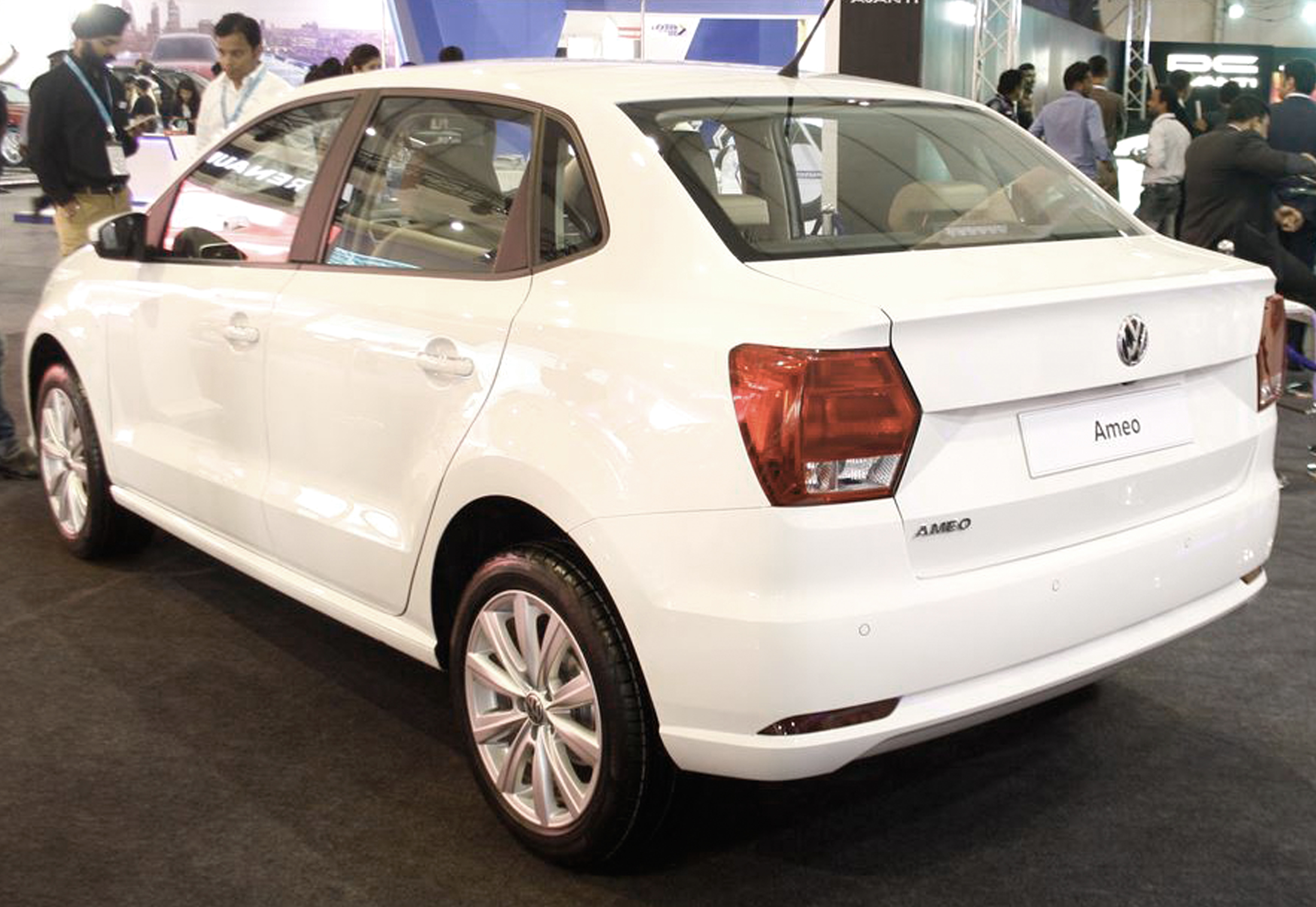 VW Ameo rear view.